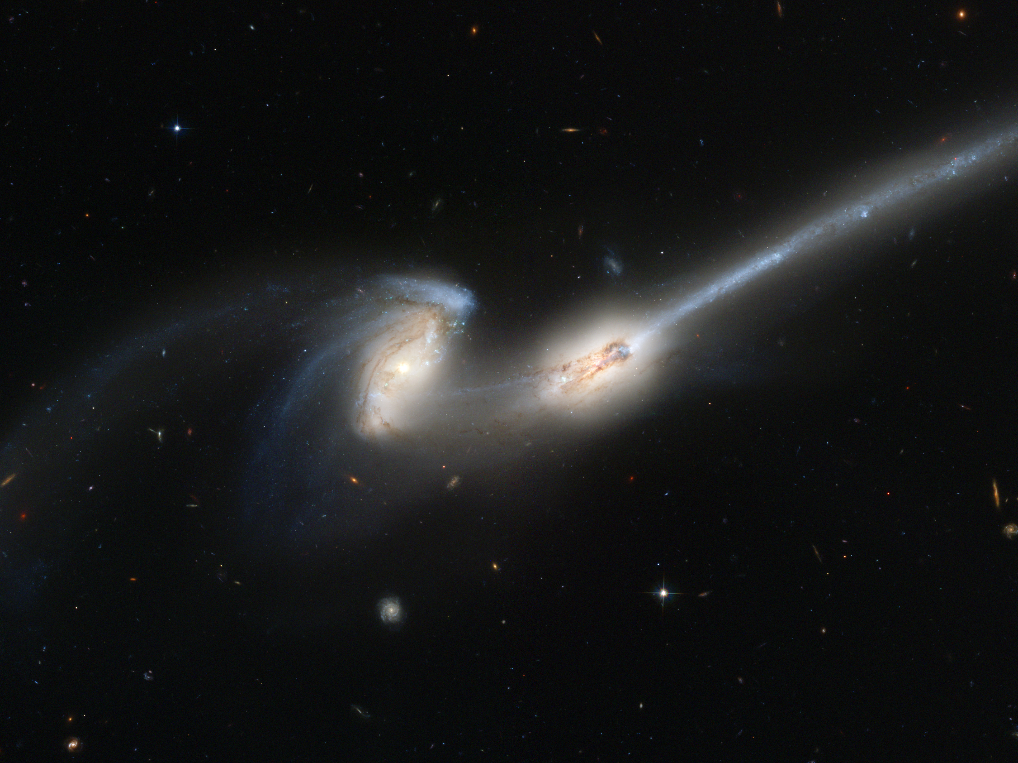 The Advanced Camera for Surveys (ACS), the newest camera on NASA/ESA Hubble Space Telescope, has captured a spectacular pair of galaxies engaged in a celestial dance of cat and mouse or, in this case, mouse and mouse. Located 300 million light-years away in the constellation Coma Berenices, the colliding galaxies have been nicknamed "The Mice" because of the long tails of stars and gas emanating from each galaxy. Otherwise known as NGC 4676, the pair will eventually merge into a single giant galaxy.